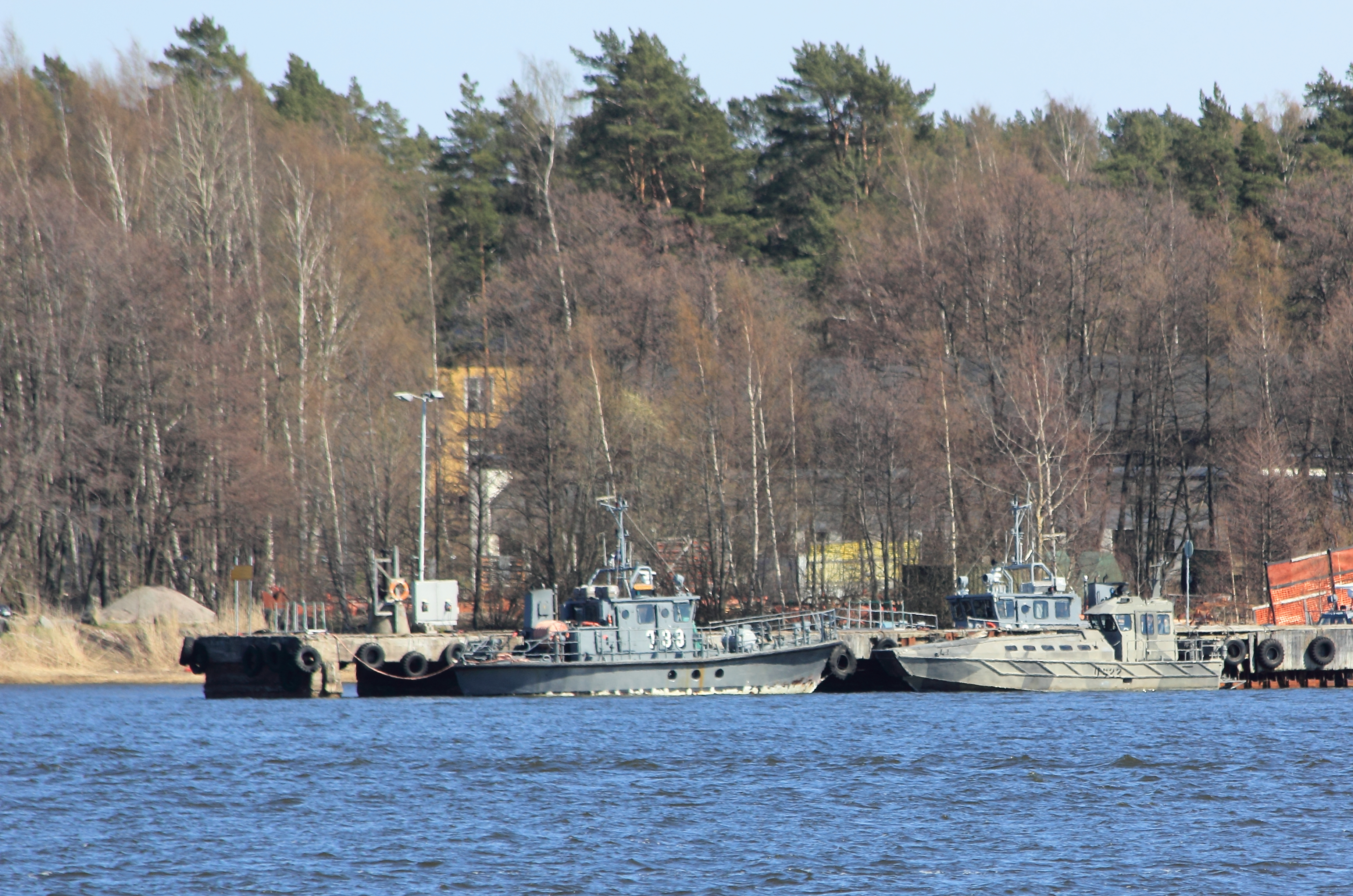 Finnish navy transport ship Hästö (739) and Jurmo class landing craft U622 moored at Santahamina.